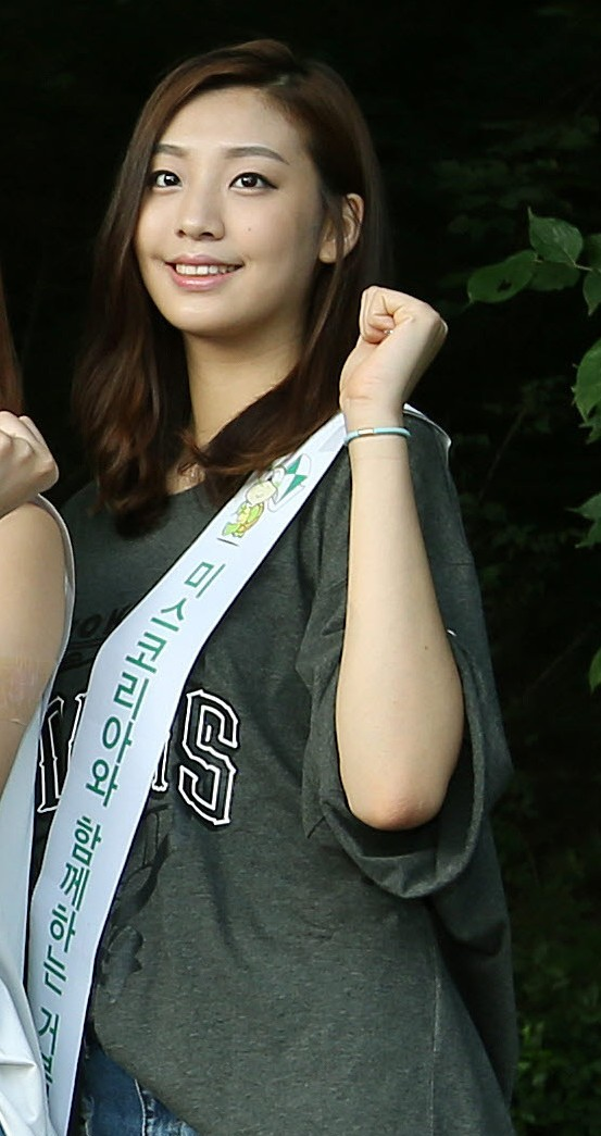 Namsan Trail Turtle Walk-A-Thon August 24, 2014 Namsan, Seoul Ministry of Culture, Sports and Tourism Korean Culture and Information Service ( Official Photographer: Jeon Han This official Republic of Korea photograph is CC-BY-SA-2.0-licensed, so while restrictions such as personality or privacy rights may apply, in general, manipulations are allowed. If you require a photograph without a watermark, please use Flickr e-mail.